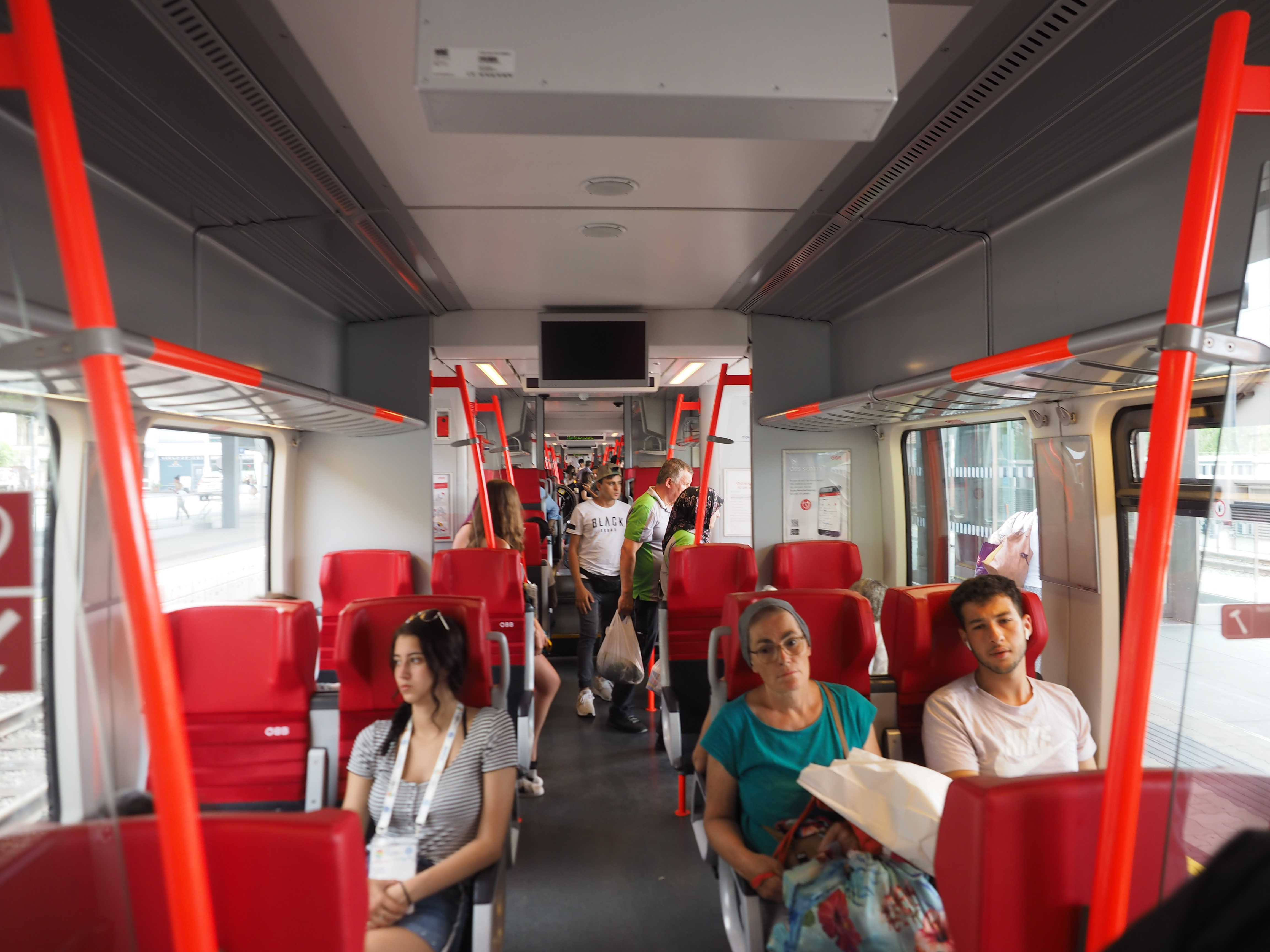 Interior of the S1 local train (line Lindau - Bludenz) in Vorarlberg, Austria.